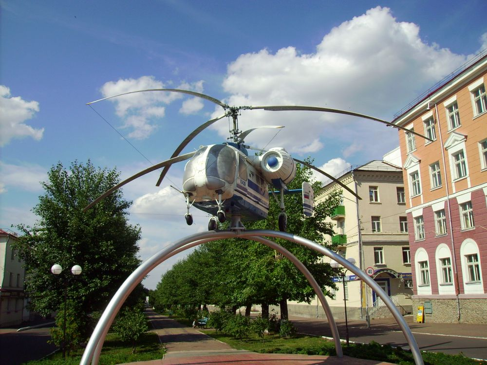 Monument of helicopter in Kumertau